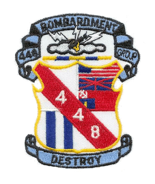 Emblem of the 448th Bombardment Group